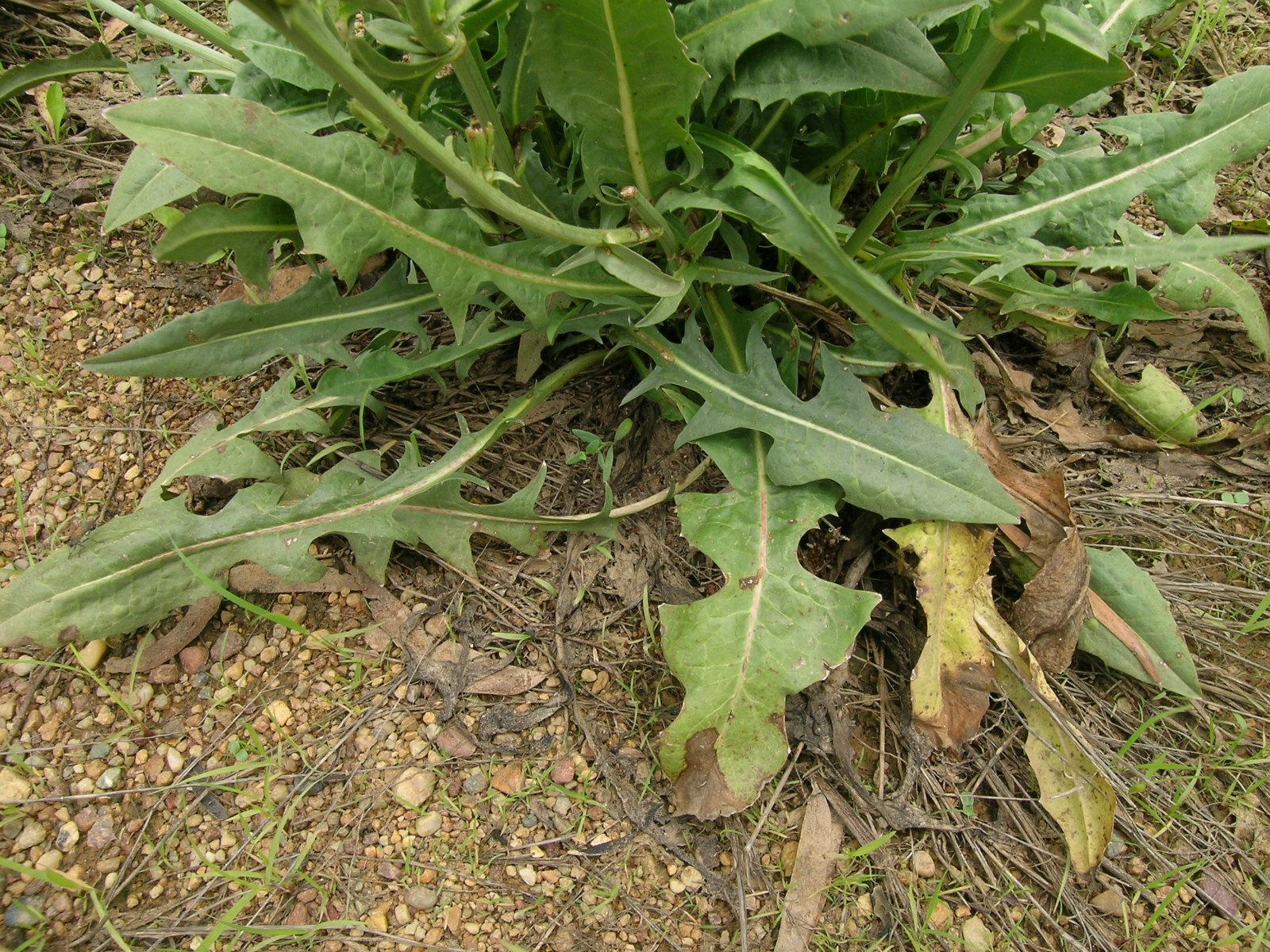 Leaves form a rosette when young; they are large, soft, and hairless (or with short stiff hairs); the margins vary from entire to deeply and irregularly toothed.